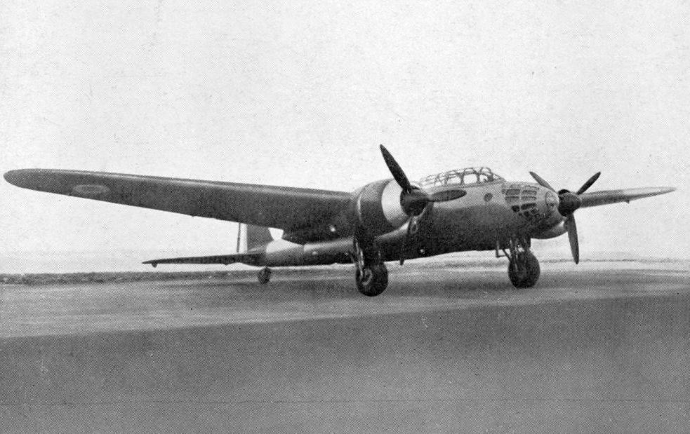 Amiot 354 photo from L'Aerophile February 1940